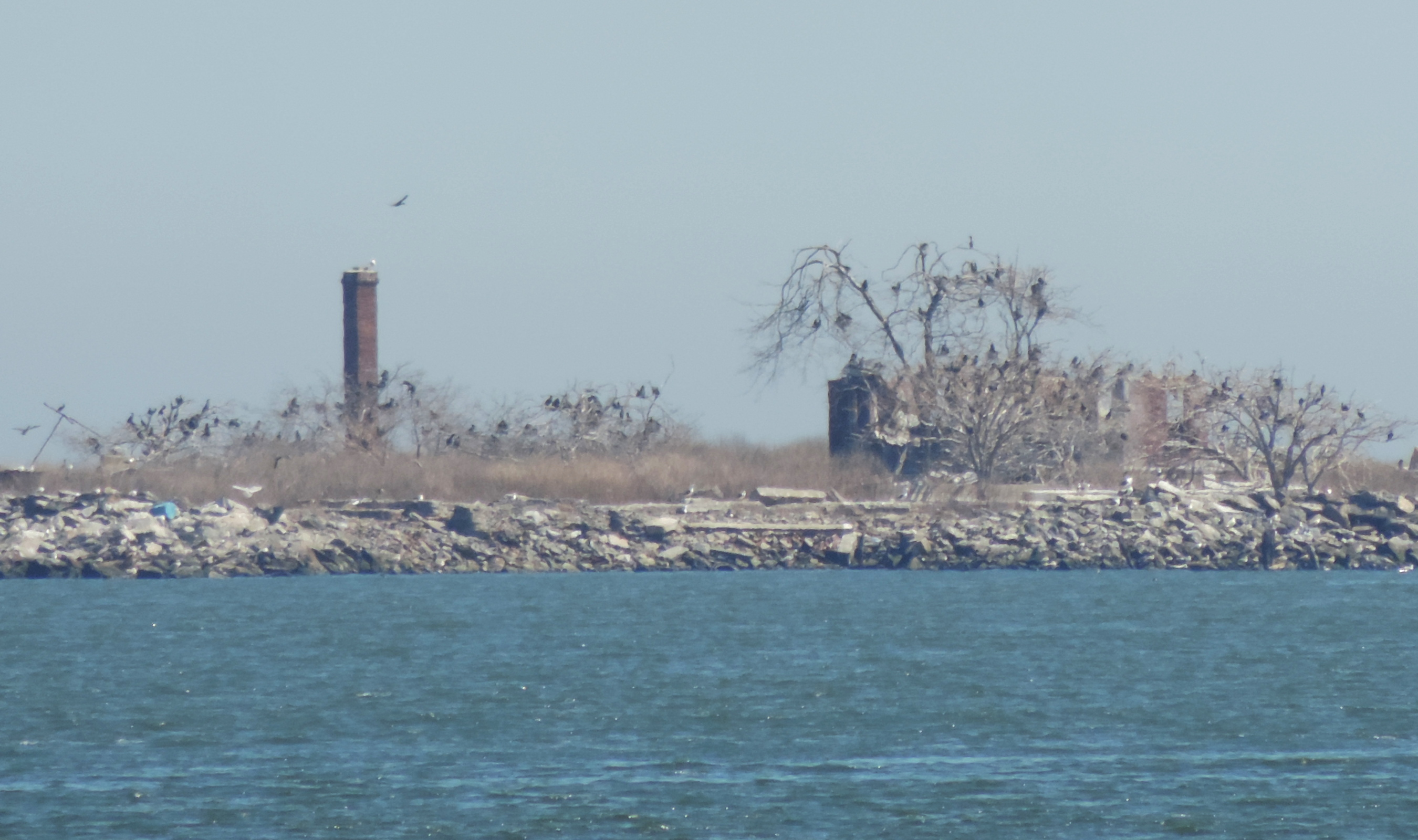 Looking southeast at Swinburne Island from Seaview Avenue Pier at South Beach, with bigger camera and not so much haze.